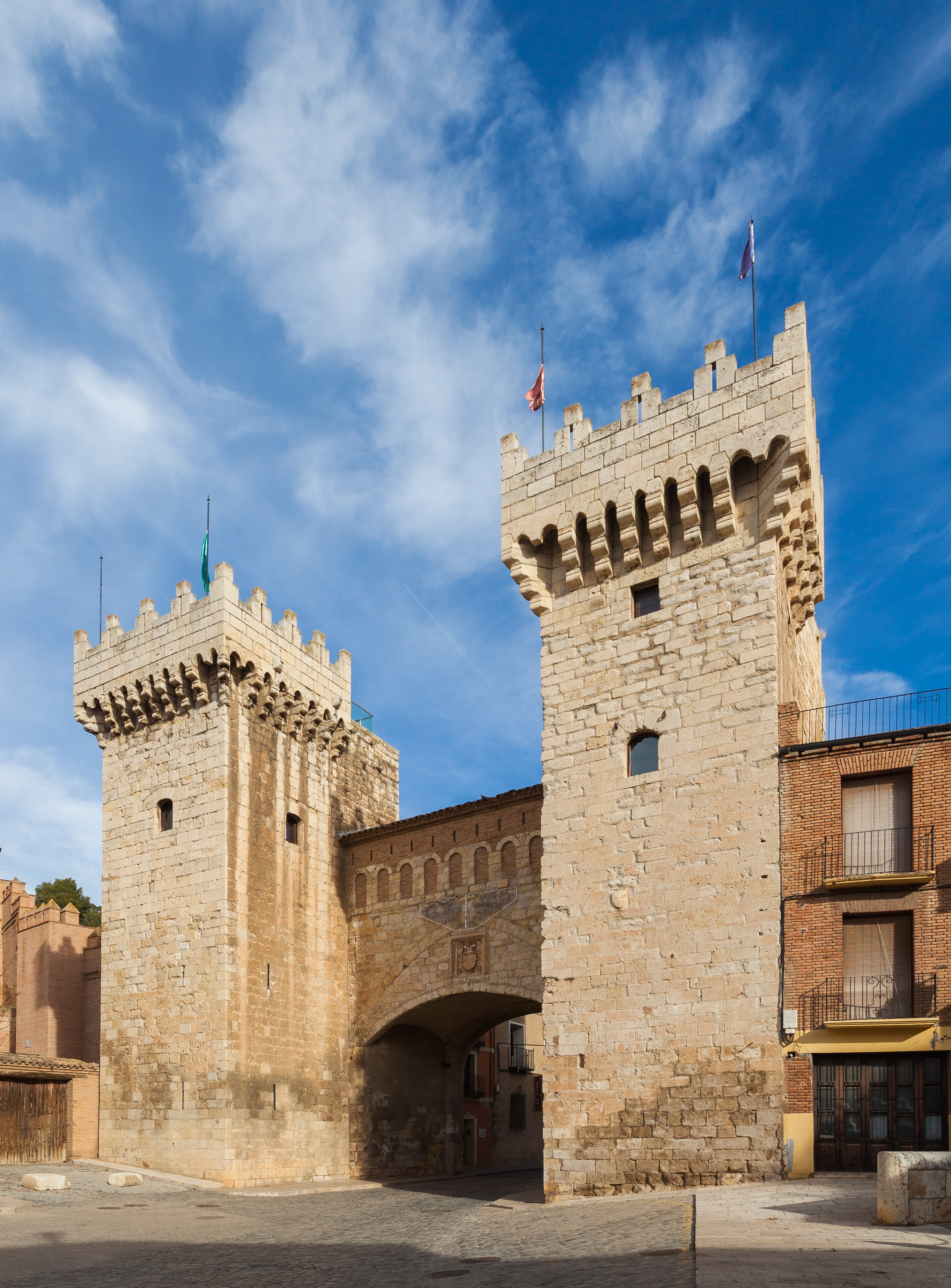 Low Gate, Daroca, Zaragoza, Spain